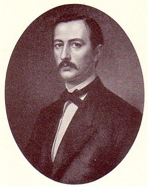 Carl Vilhelm Ludvig Marius Christian Frederik Güldencrone (1833-1895), Danish Baron and landowner